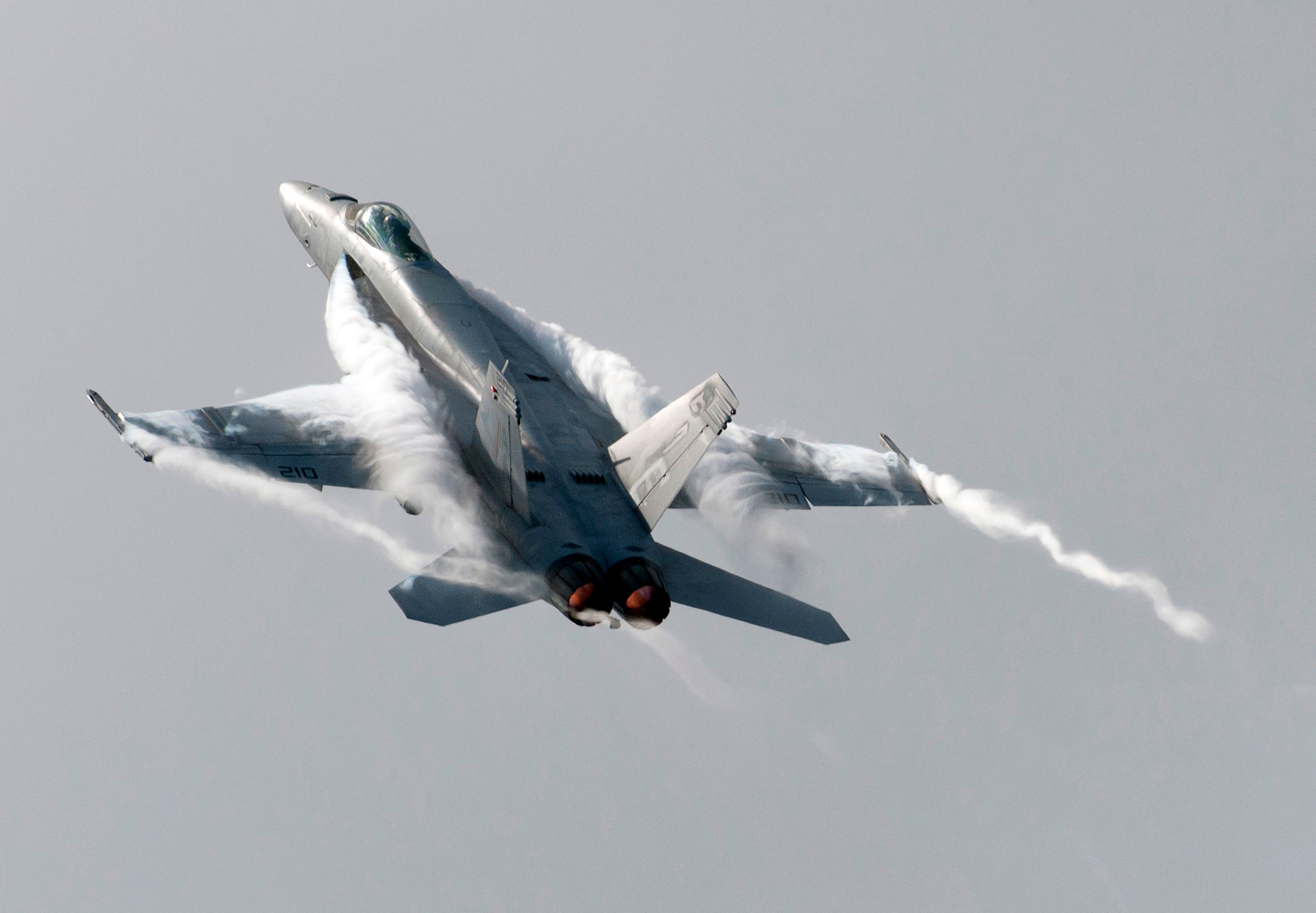 PACIFIC OCEAN (June 6, 2011) An F/A-18E Super Hornet assigned to Strike Fighter Squadron (VFA) 81 maneuvers over the Nimitz-class aircraft carrier USS Carl Vinson (CVN 70) during an air power demonstration. Carl Vinson and Carrier Air Wing (CVW) 17 are underway in the U.S. 3rd Fleet area of responsibility. (U.S. Navy photo by Mass Communication Specialist 2nd Class James R. Evans/Released)